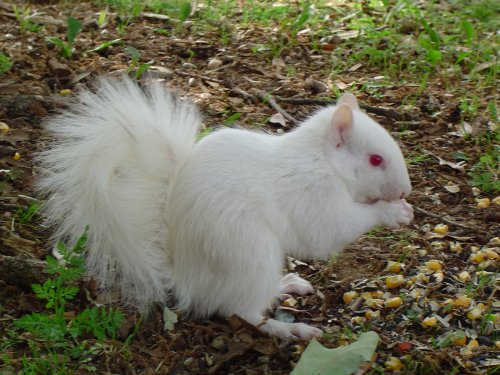 photographer: Ivan Vargas